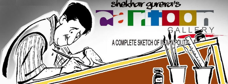 Self-sketched, banner composition by an Indian cartoonist Shekhar Gurera.